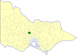 Location of the Shire of Metcalfe within Victoria.